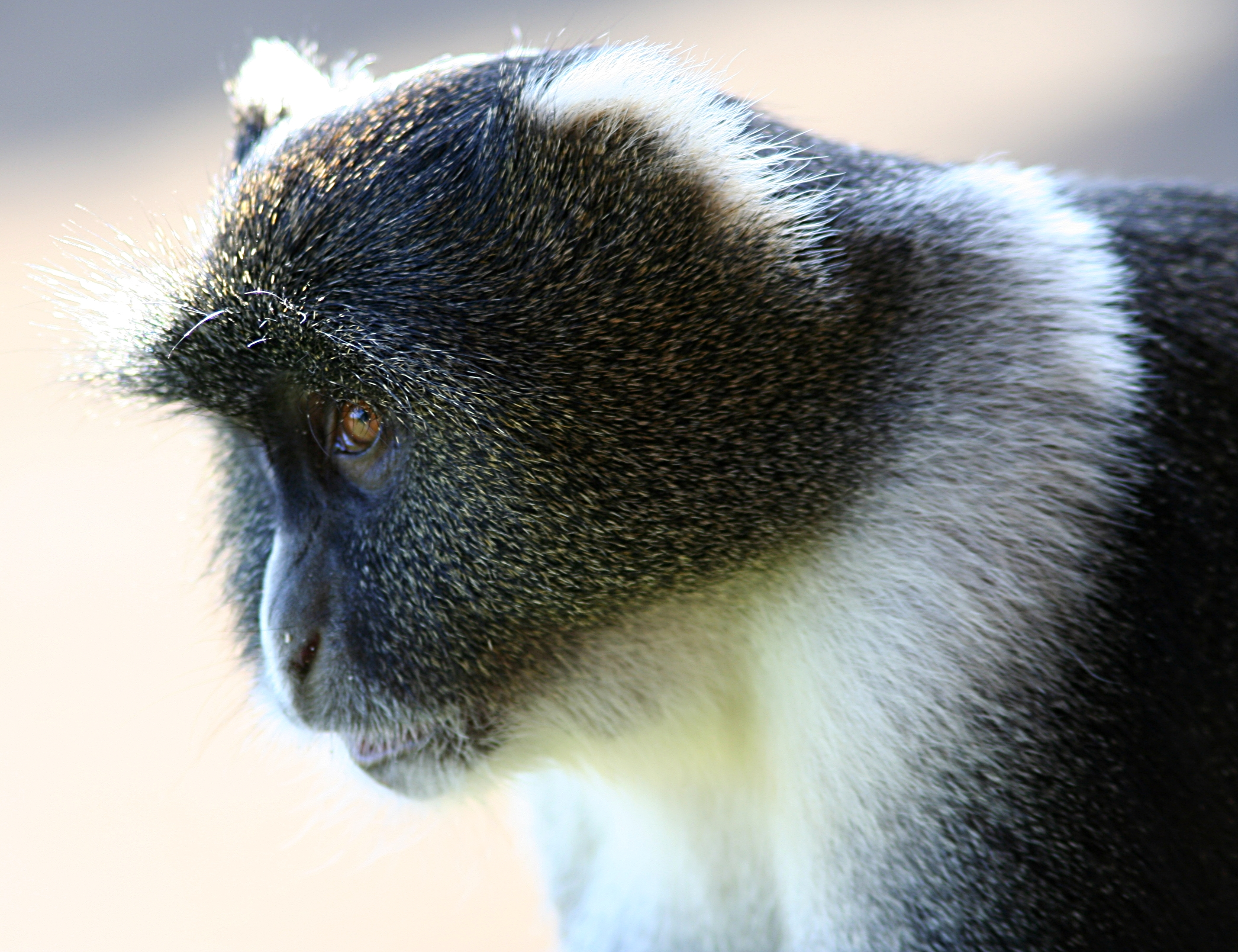 Photograph, Sykes' Monkey, Cercopithecus albogularis kolbi (head in profile) taken at Kenya Mountain Lodge, Kenya.